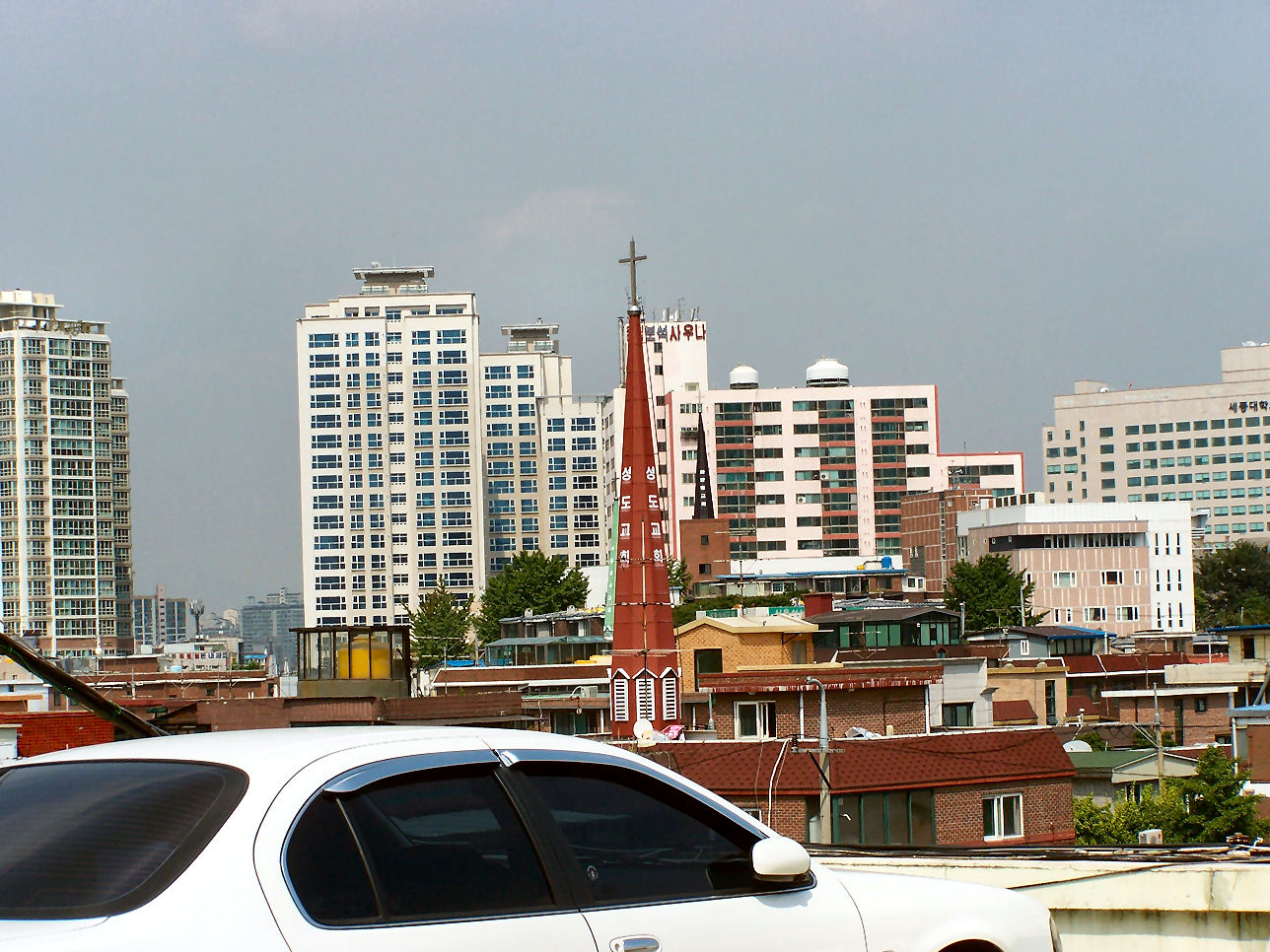 View of Hwayangdong